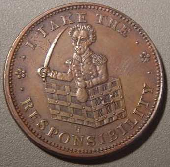 This is a picture of a hard times token (privately minted tokens which were used in place of one cent coins during the "Hard Times" currency shortage in the U.S.A.). The inscription reads "I Take the Responsibility"; appears to depict U.S. President Andrew Jackson holding a drawn sword and a coin bag emerging from a strong box